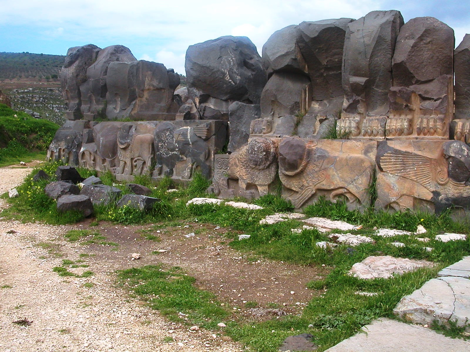 Rebuilt sculpted wall of the Ain Dara temple